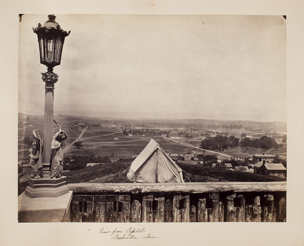 Accession Number: 1979:0022:0004 Maker: George N. Barnard (1819-1902) Title: View from Capitol. Nashville, Tennessee Date: ca. 1865 Medium: albumen print Dimensions: 28.5 x 36.9 cm. George Eastman House Collection · ·